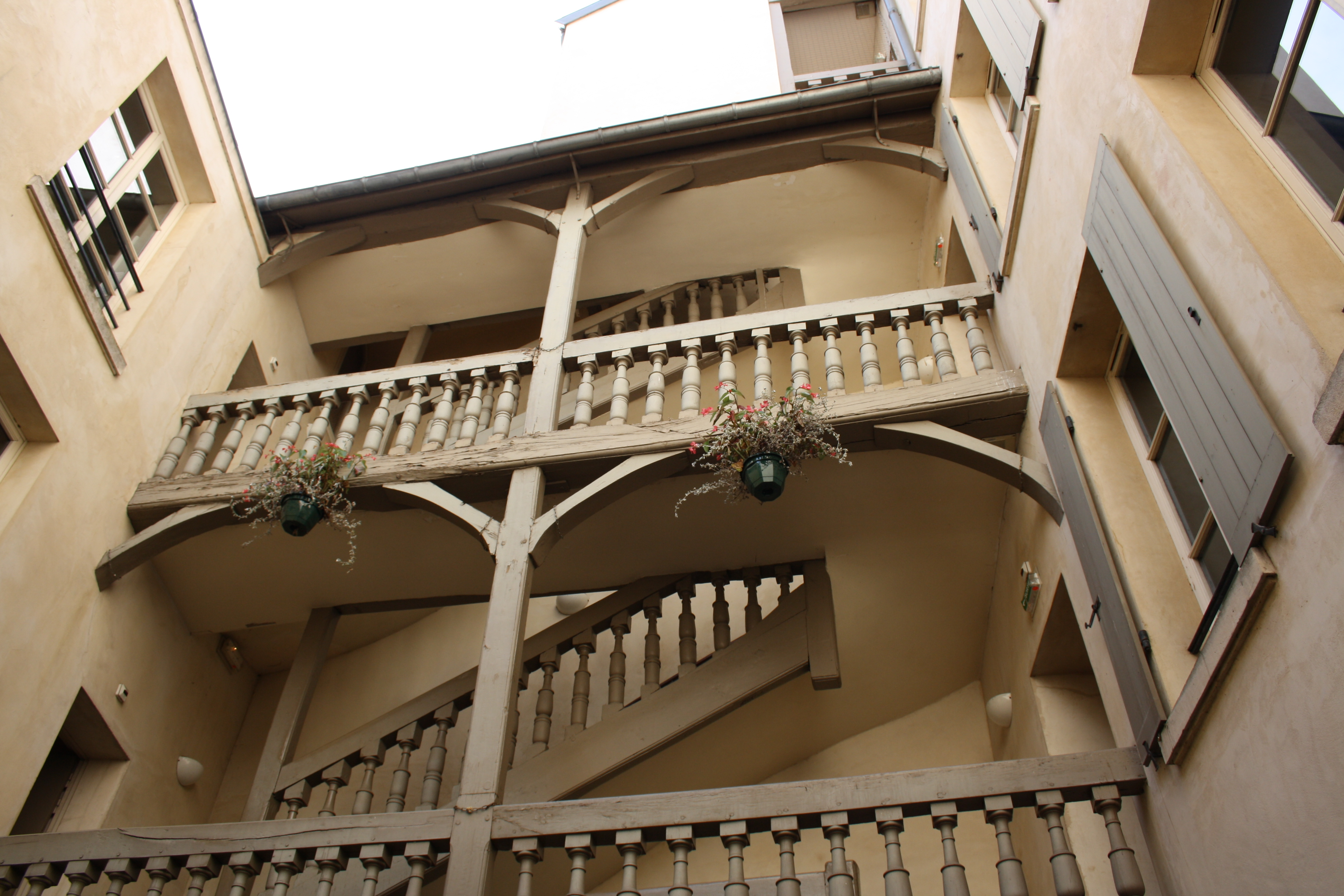 Formerly the house of french composer Claude Debussy now a tourism office and a small museum located 38 rue au Pain in Saint-Germain-en-Laye, France.